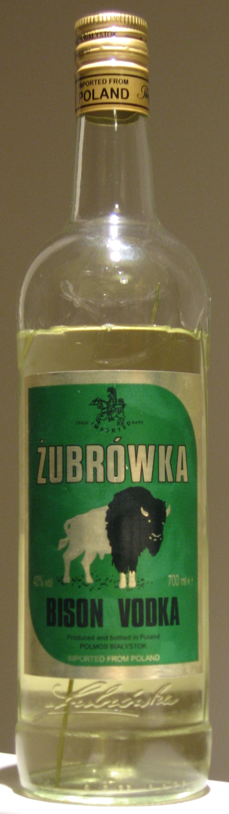 Żubrówka bottle, poland vodka with bison herb